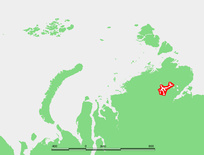 Nordensjelda Islands